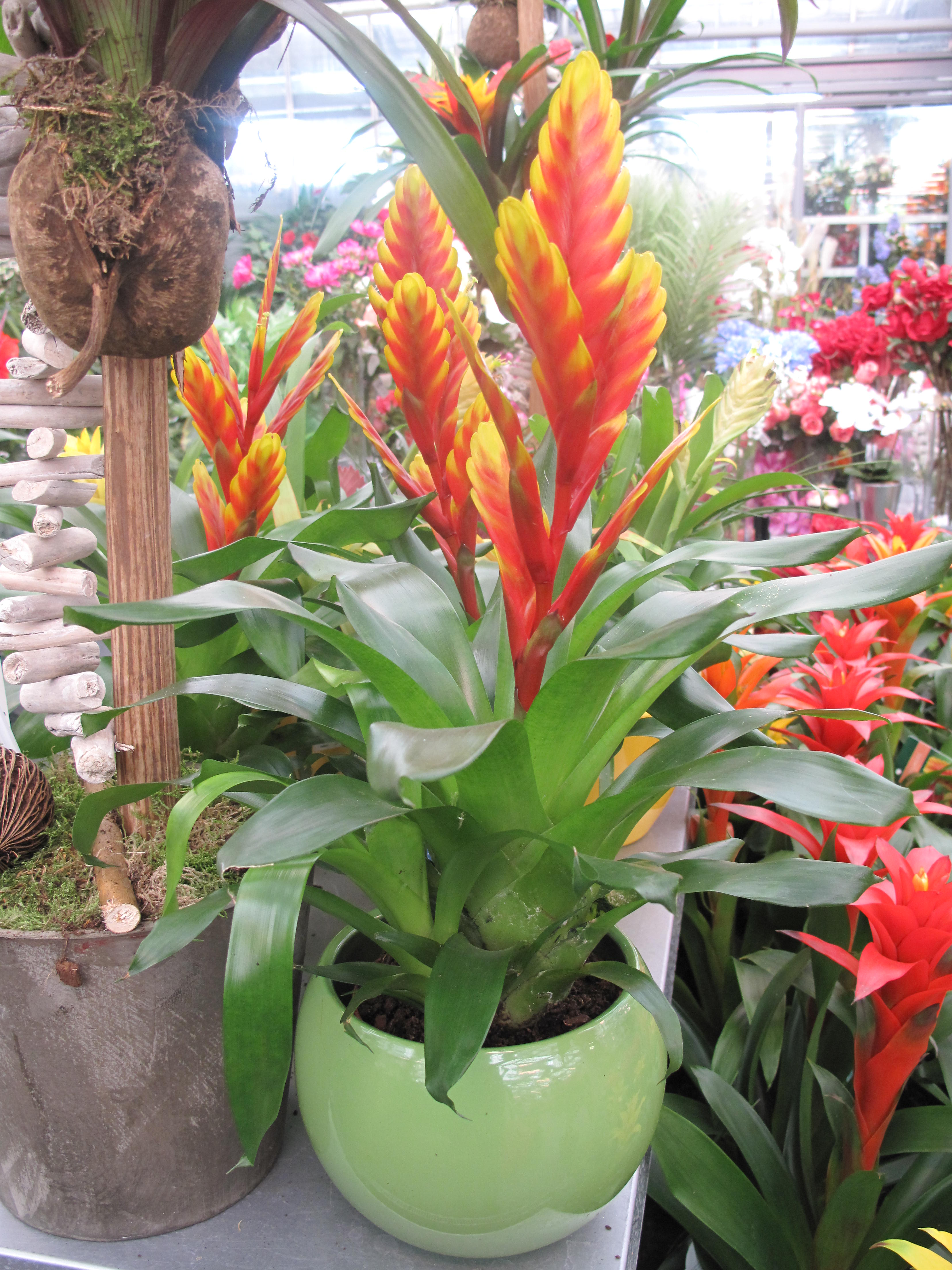 Vriesea davine in a garden centre. Identified by its commercial botanic label.